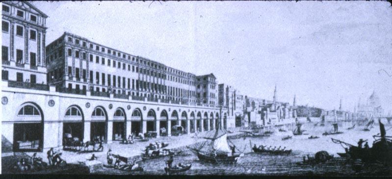 The Adelphi Buildings, London, 1768-1774. Architects: Robert, James and John Adam.